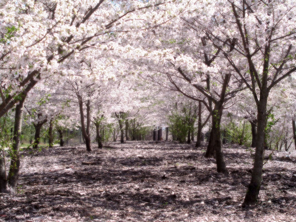 Describes those cultural aspects that are commonly associated with Sakura (spring blossoming Japanese cherry) trees